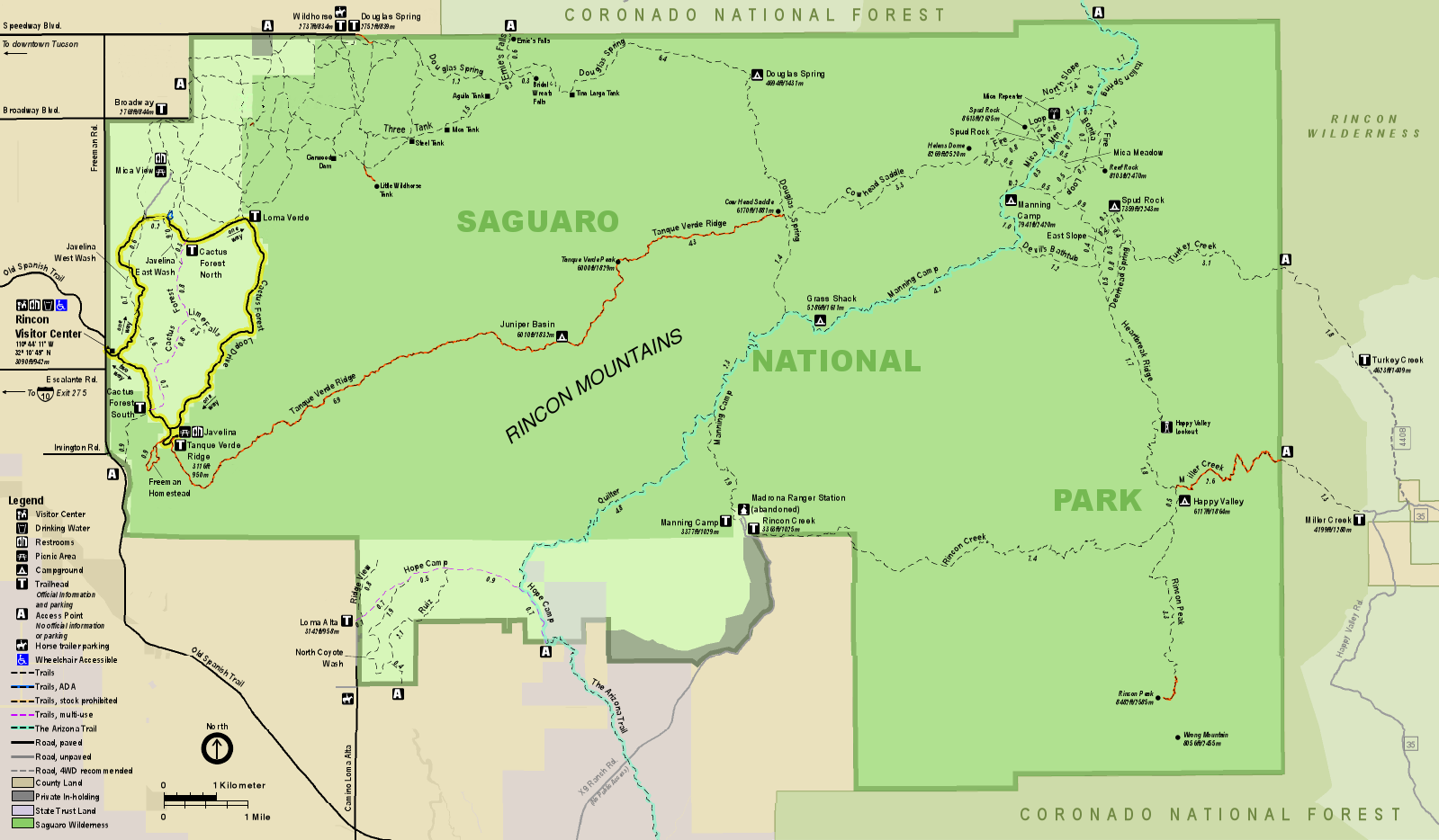 Map of the Rincon Mountain District of Saguaro National Park in the U.S. state of Arizona